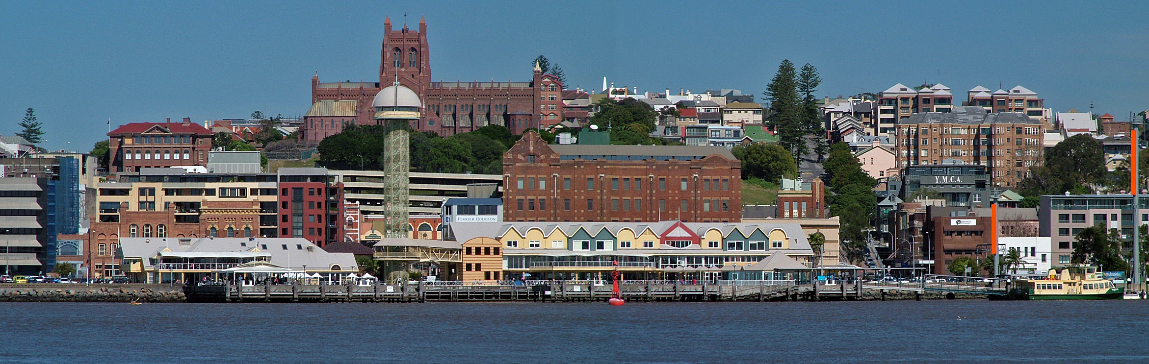 Photo merged view of the centre of Newcastle. Taken from Stockton